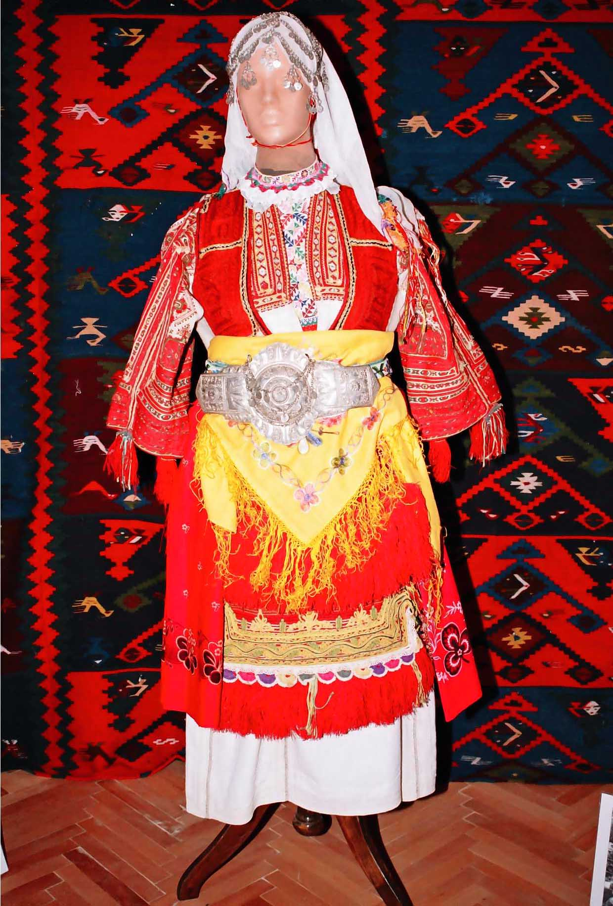 Nosija2.jpg